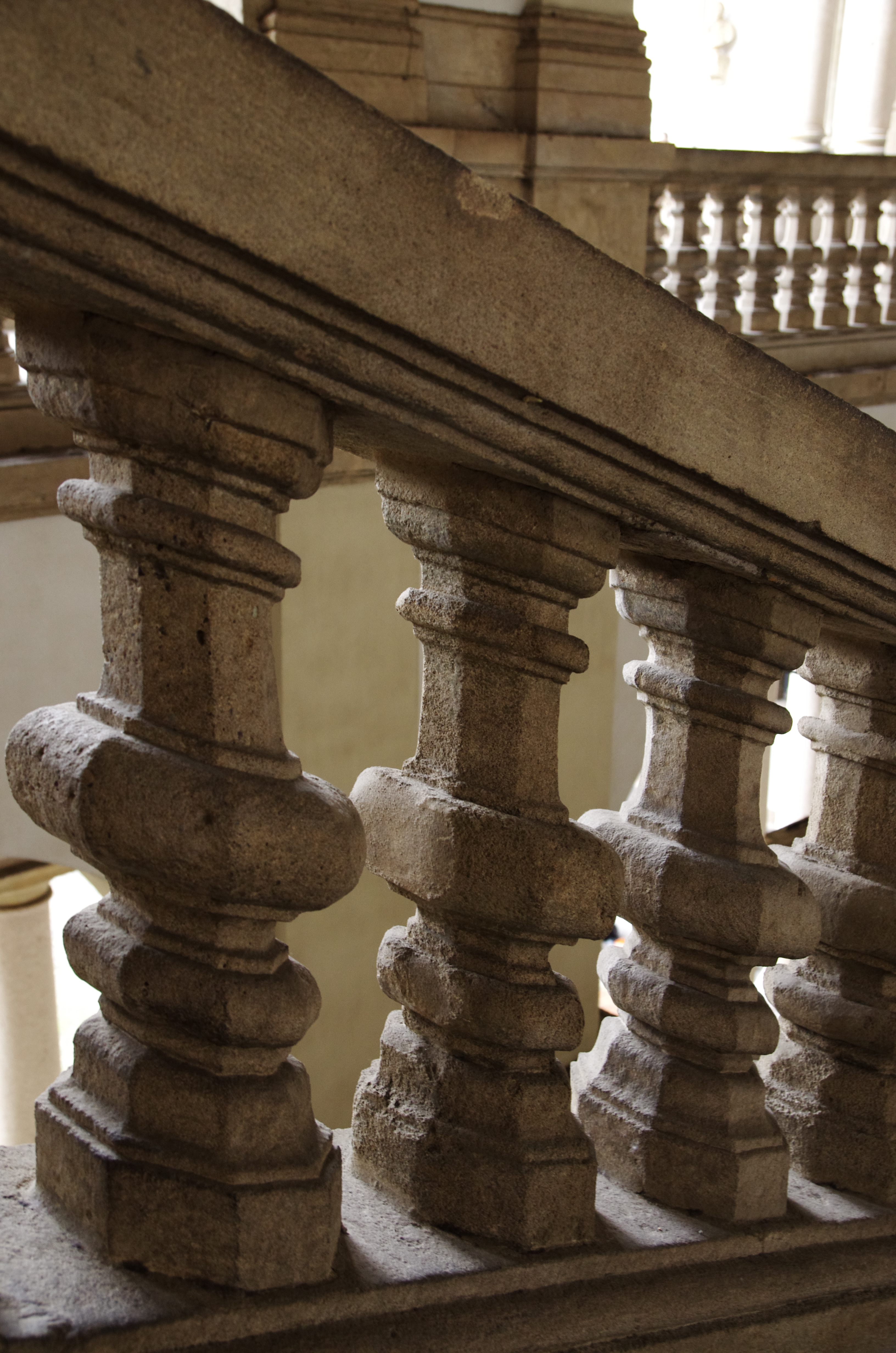 2014 02 13 14 05 11 Milano ITALY Pinacoteca di Brera parapet or baluster stair foto Paolo Villa